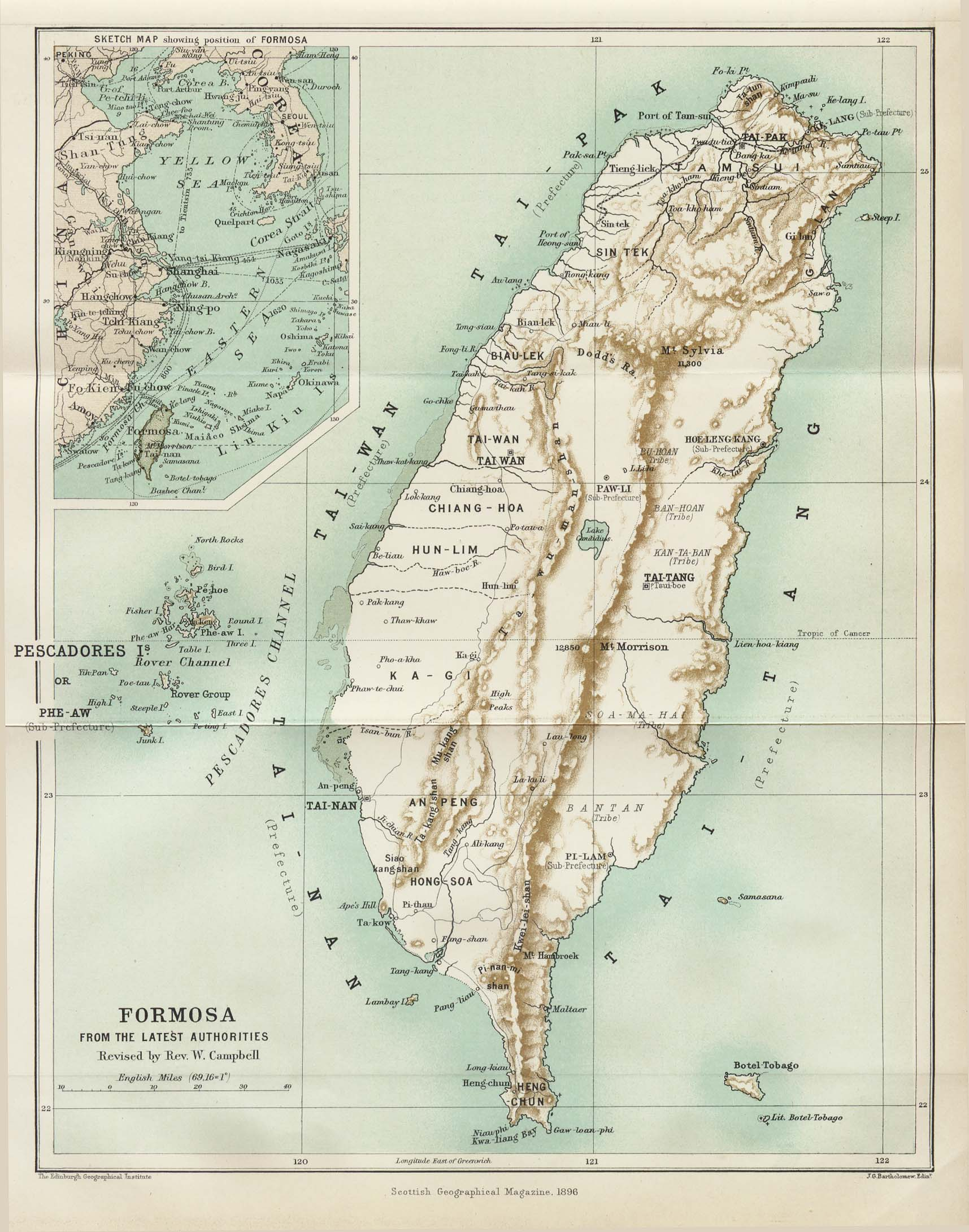 From the Scottish Geographical Magazine. Published by the Royal Scottish Geographical Society and edited by James Geikie and W.A. Taylor. Volume XII: 1896.